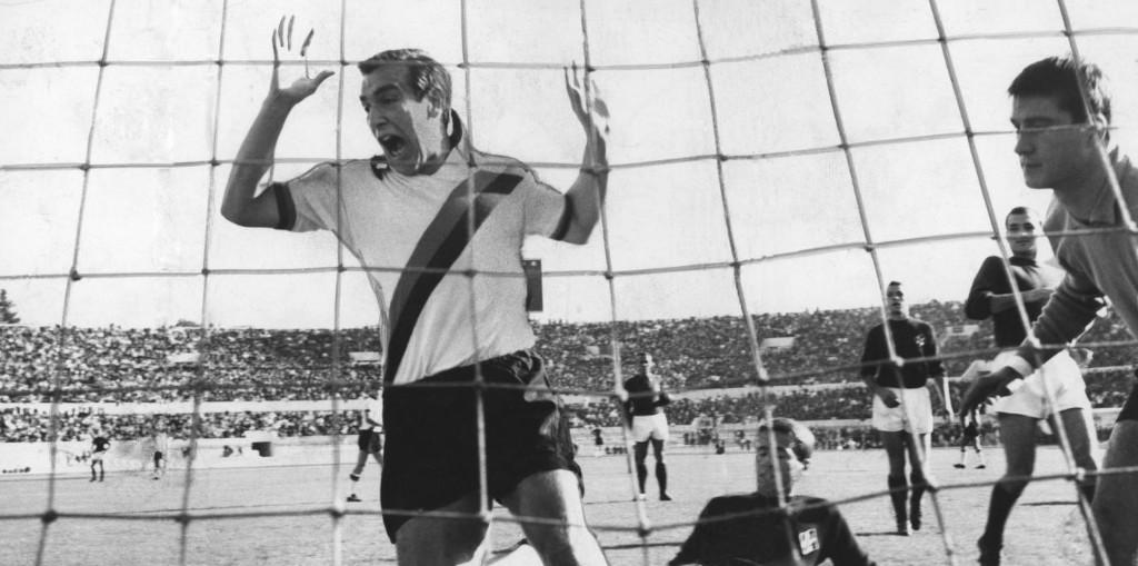 Rome (Italy), Olympic Stadium, October 11, 1964. Italian-Argentine footballer Antonio Valentín Angelillo scores an hat-trick for A.S. Roma in the home tie versus A.C. Fiorentina (3-3), Matchday 5 of the Italian League 1964–65 Serie A.